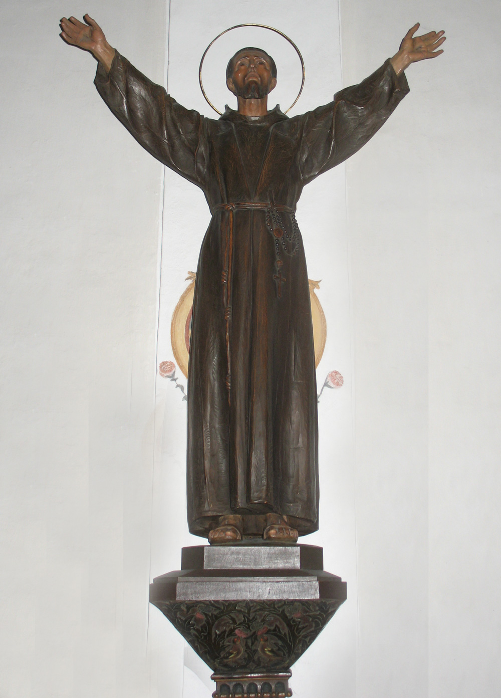 Saint Francis of Assisi in the S. Anthony church of St. Ulrich in Gröden - Ortisei Val Gardena - Sculptor Ludwig Moroder